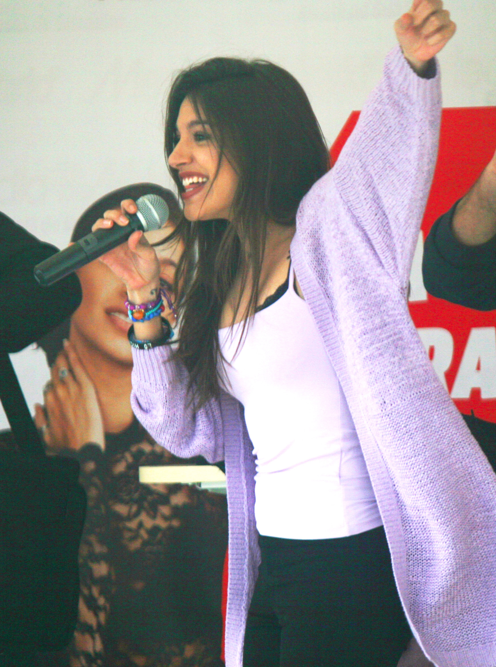 Ana Guerra during Album signing event in Seville